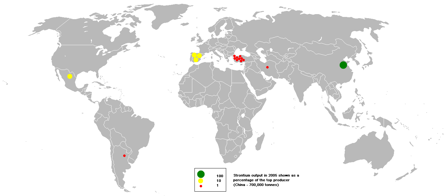 This bubble map shows the global distribution of strontiums output in 2005 as a percentage of the top producer (China - 700,000 tonnes). This map is consistent with incomplete set of data too as long as the top producer is known. It resolves the accessibility issues faced by colour-coded maps that may not be properly rendered in old computer screens.